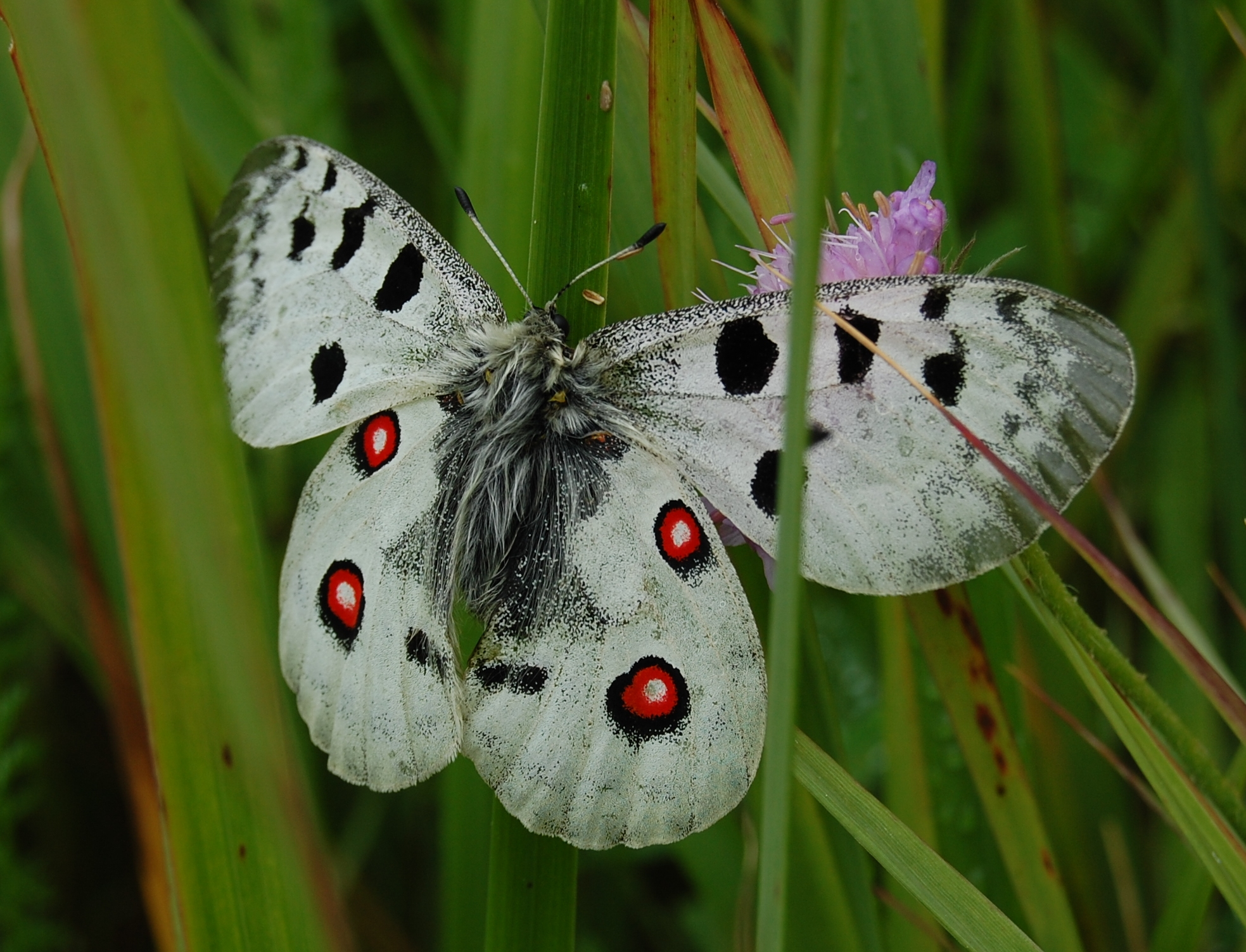 Appolo butterfly (Parnassius apollo ssp. norwegicus) in Dalen, Telemark, Norway